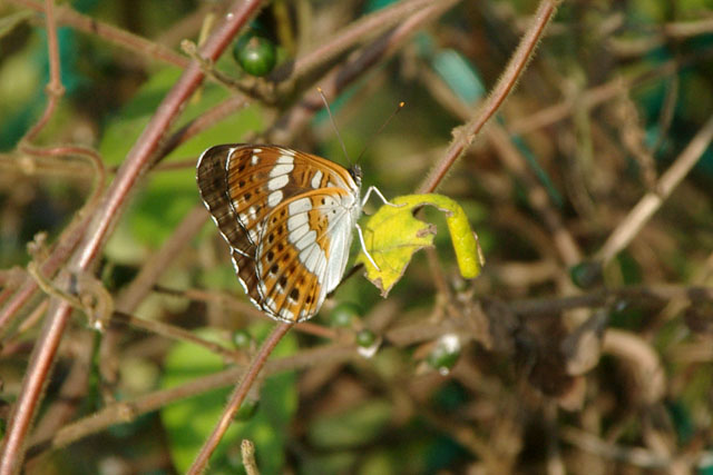 Limenitis glorifica (Asama White Admiral)